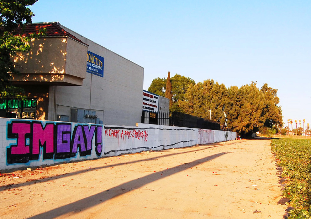 Unique graffiti next to a strawberry field on Central Ave in Montclair, California. Graffiti was removed shortly after this photograph was taken.